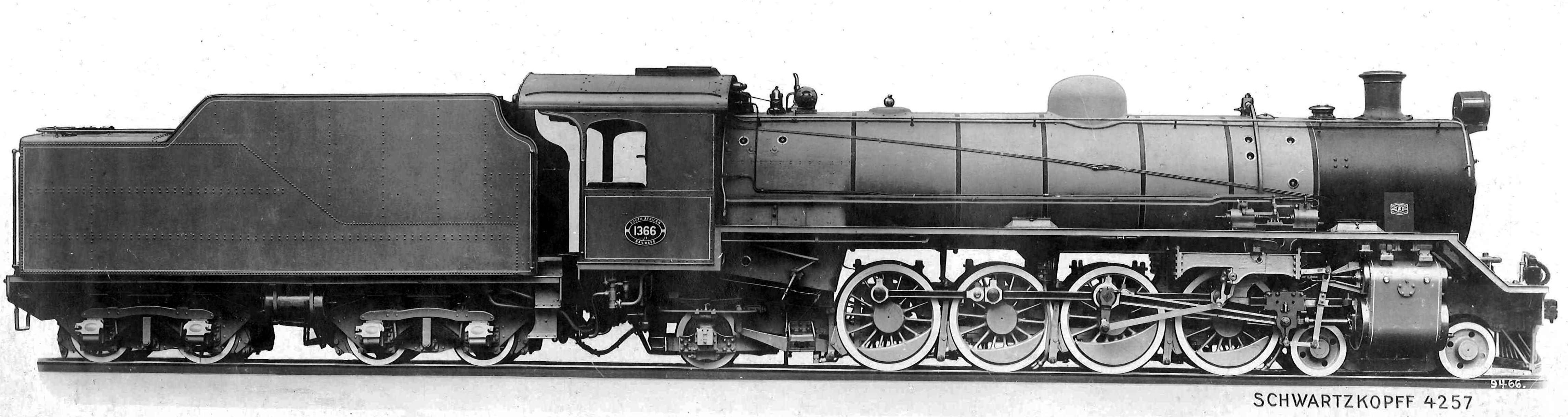 Works picture of South African Railways Class 19 no. 1366